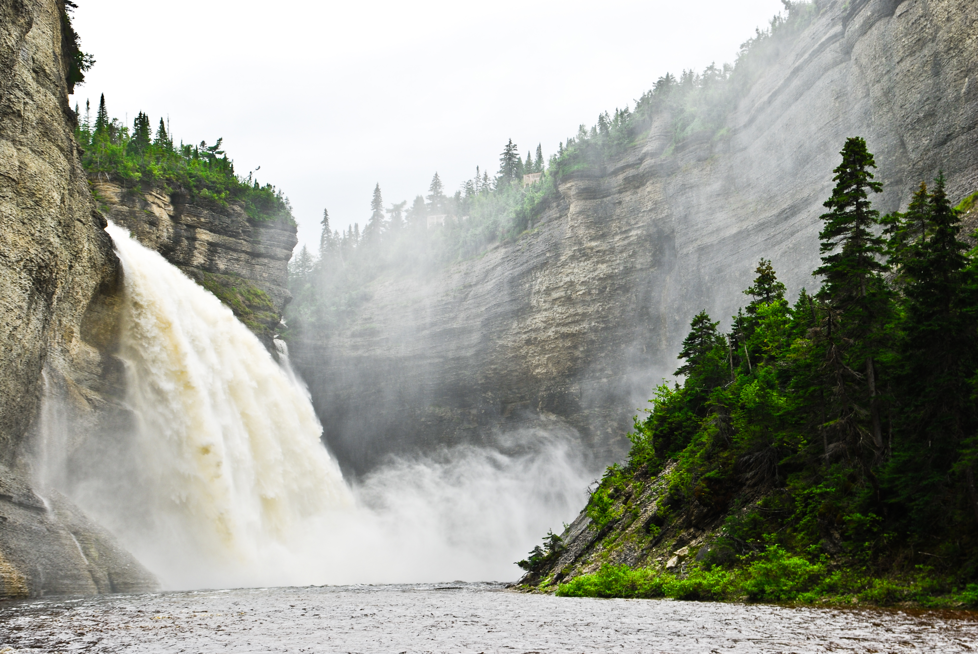 Largest fall on the Anticosti island.